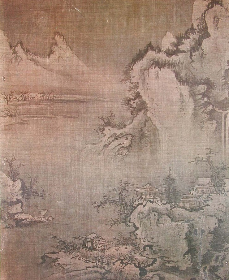 sasipalgyeongdo is a collection of eight paintings that depict the eight seasons of a mountain and water landscape